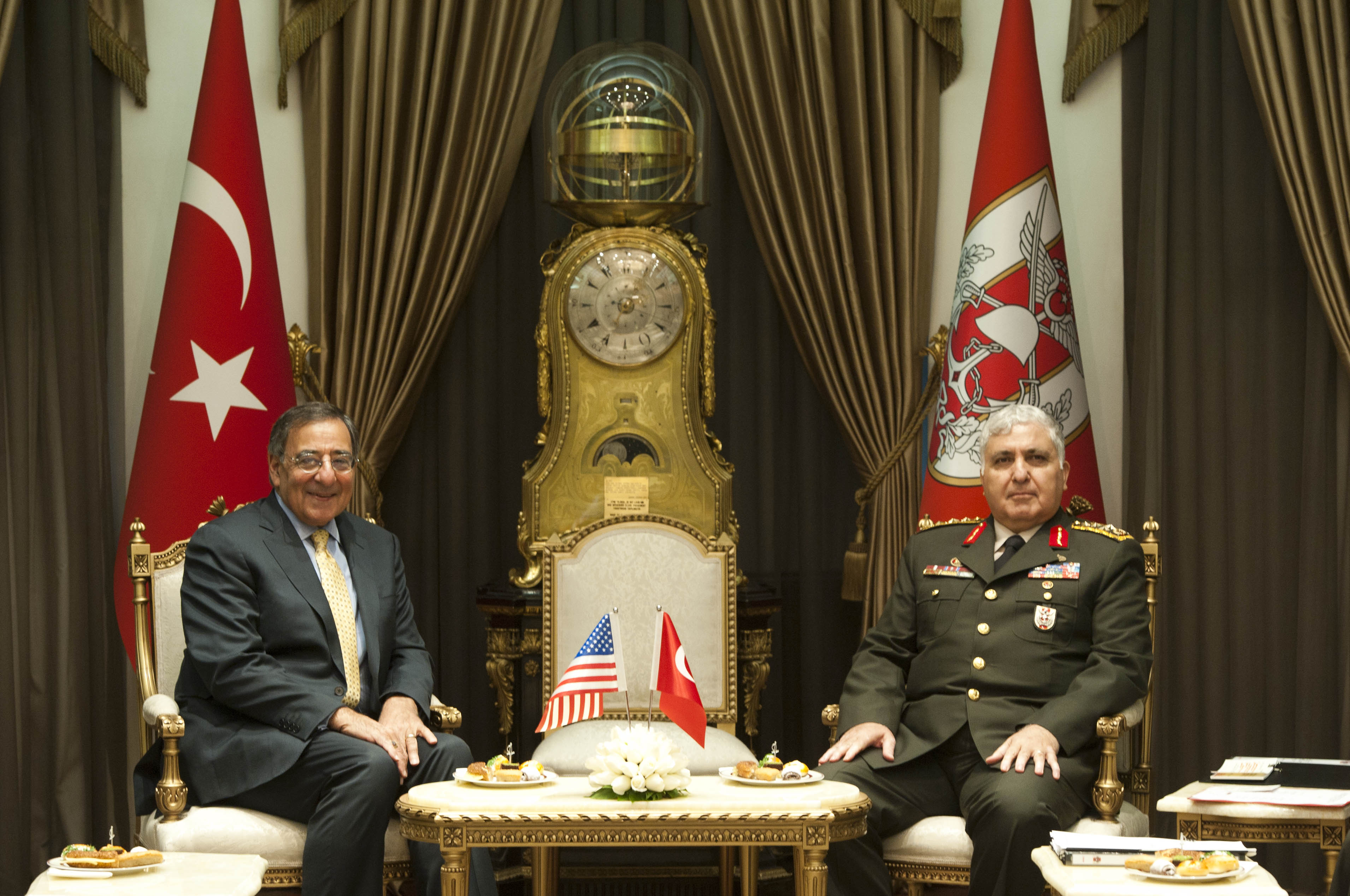 Leon E. Panetta meets with General Necdet Özel, Chief of Defense in Ankara